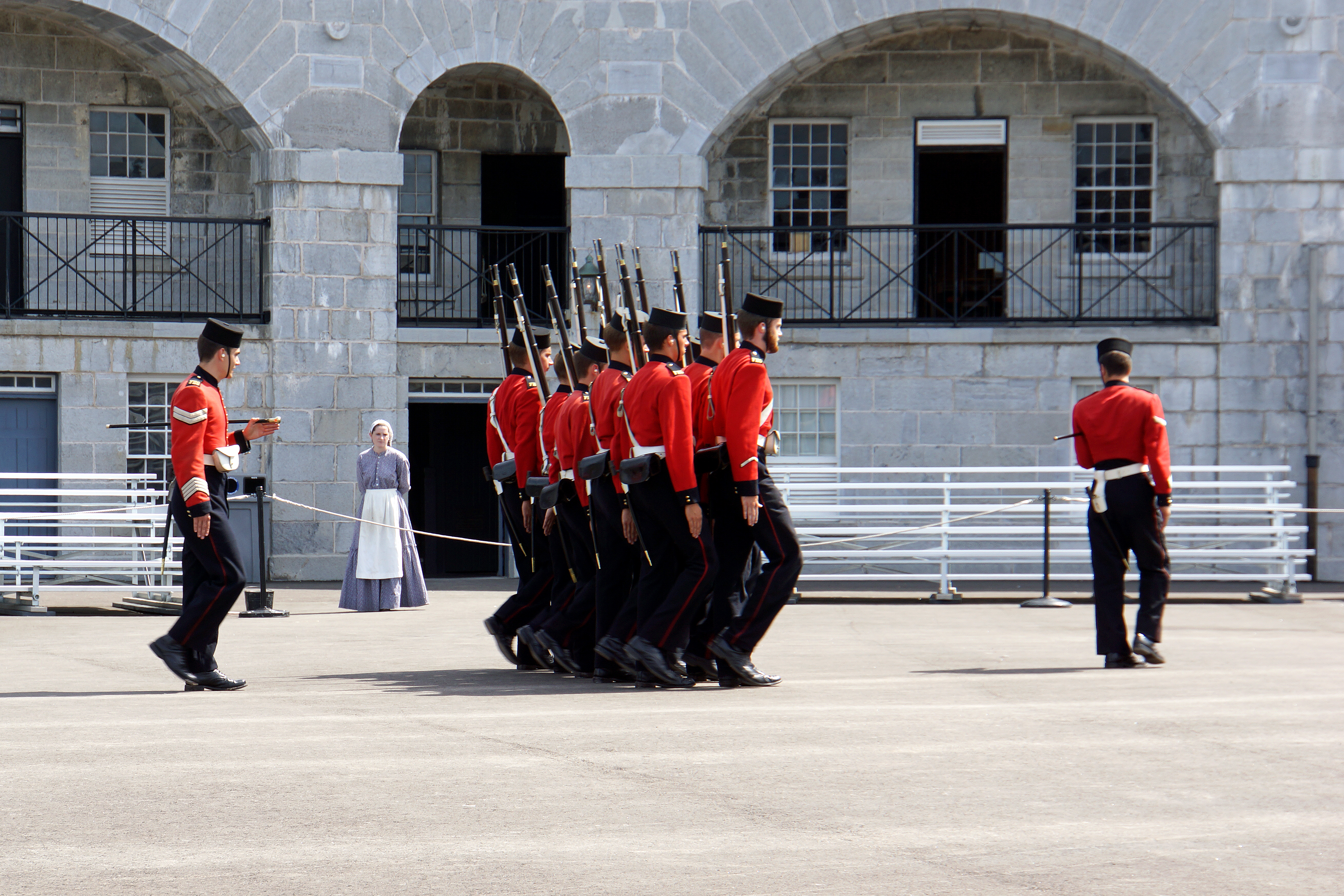 PLEASE, no multi invitations, glitters or self promotion in your comments, THEY WILL BE DELETED. My photos are FREE for anyone to use, just give me credit and it would be nice if you let me know, thanks - NONE OF MY PICTURES ARE HDR. The guards were practicing drills at the fort when we got there. If you were to go at 3pm they would be in full dress uniform, band playing and muskets firing but we were just passing through on the way to Toronto. Once inside the wooden gates, visitors enter the realm of 19th century military life, experience guided tours, scenic views, heart-pounding musical performances and precision military demonstrations by the Fort Henry Guard (a highly disciplined group of university student recruits trained as British soldiers from 1867). You will also see people representing the civilian population of the Fort as schoolteachers and soldiers' wives. The Fort also plays host to numerous special ceremonies and events that take place all season long.